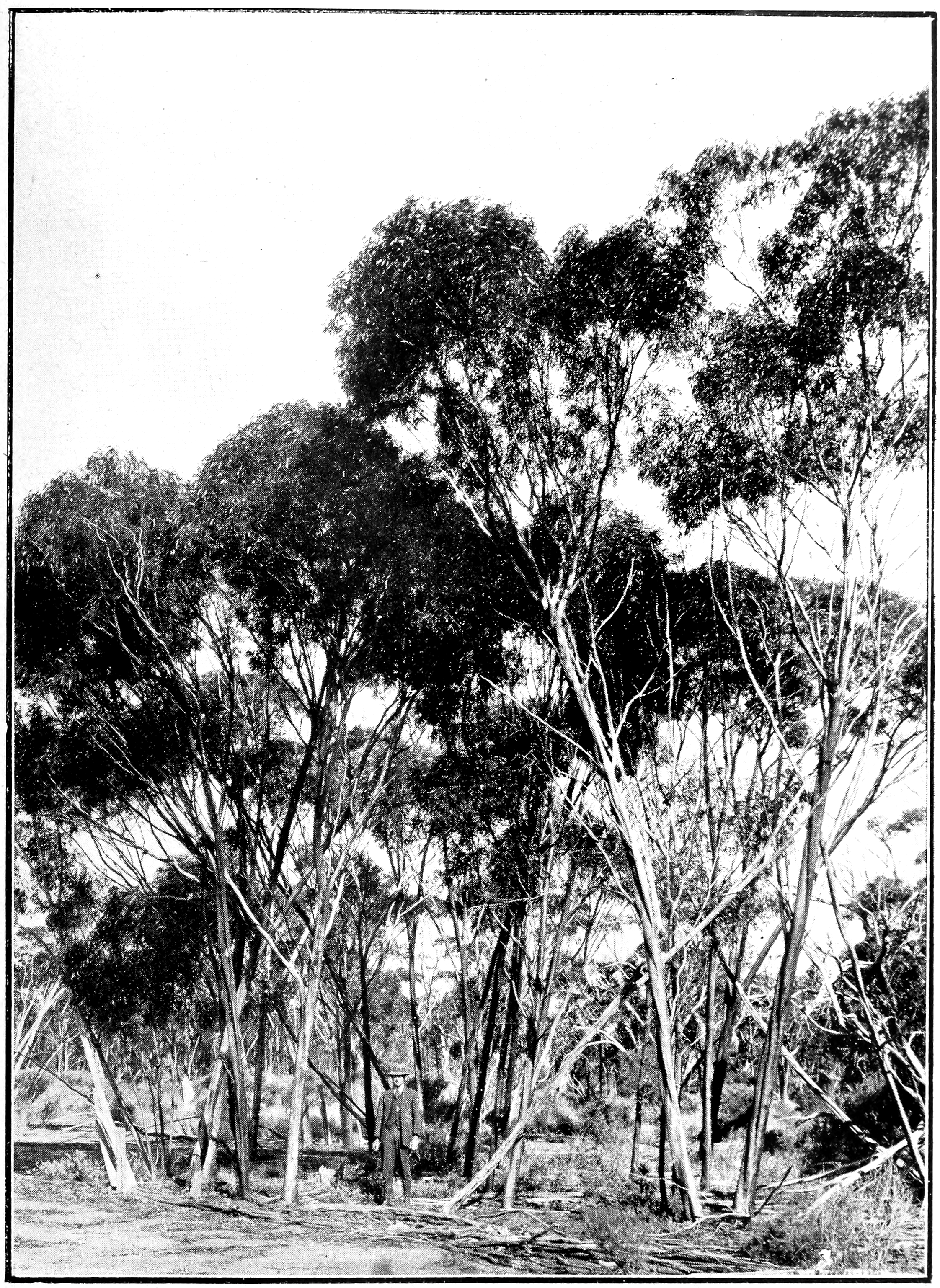 Photograph illustrating source, removed caption in title of image. Categorised by the systematic name given in text, or current synonym in taxonomy at commons.